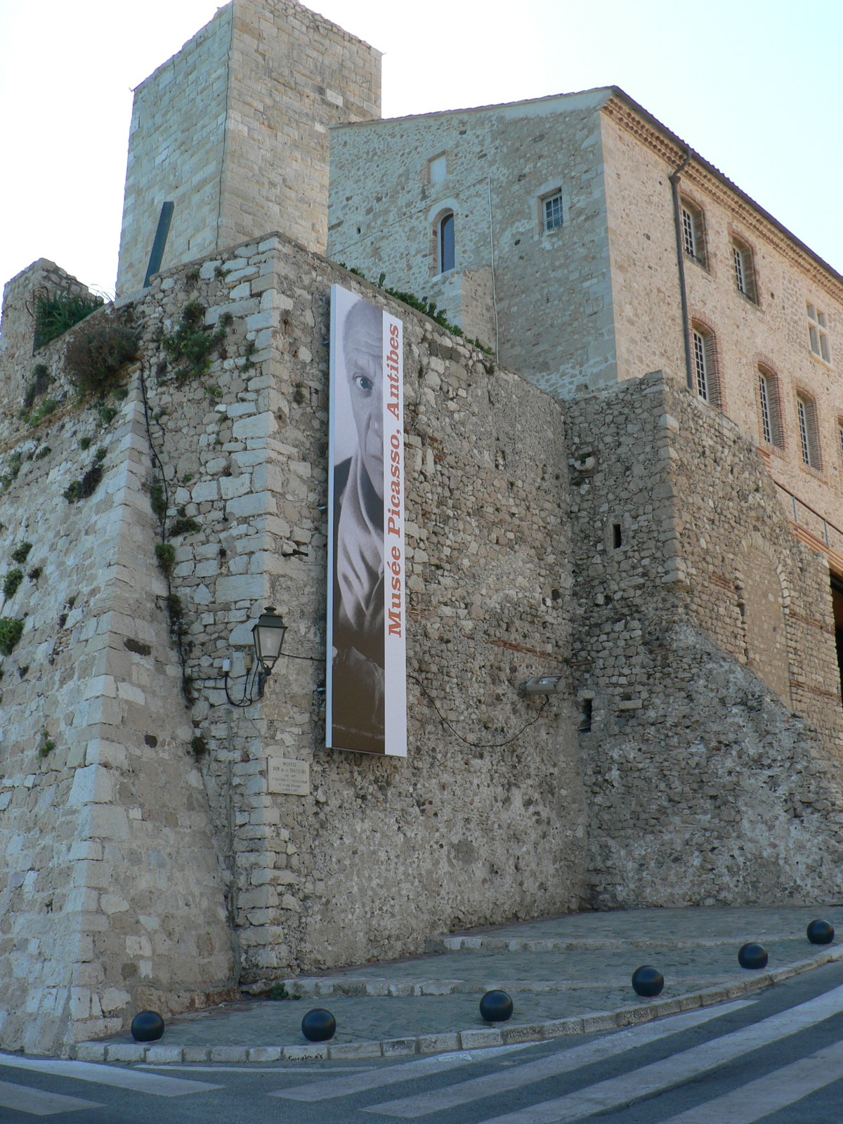 Picasso Museum, Château Grimaldi, Antibes, France.